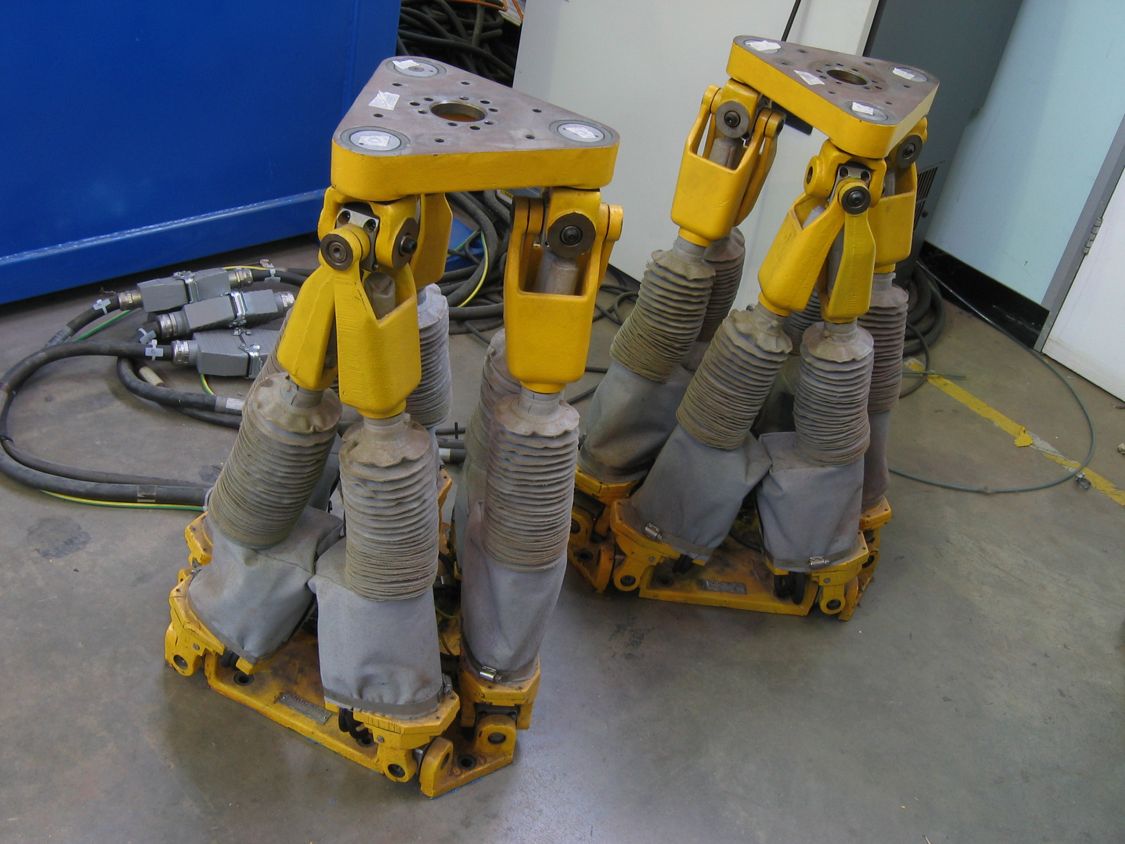 Two hexapod robotic positioners, AKA Stewart platforms. In this picture they are not in use.